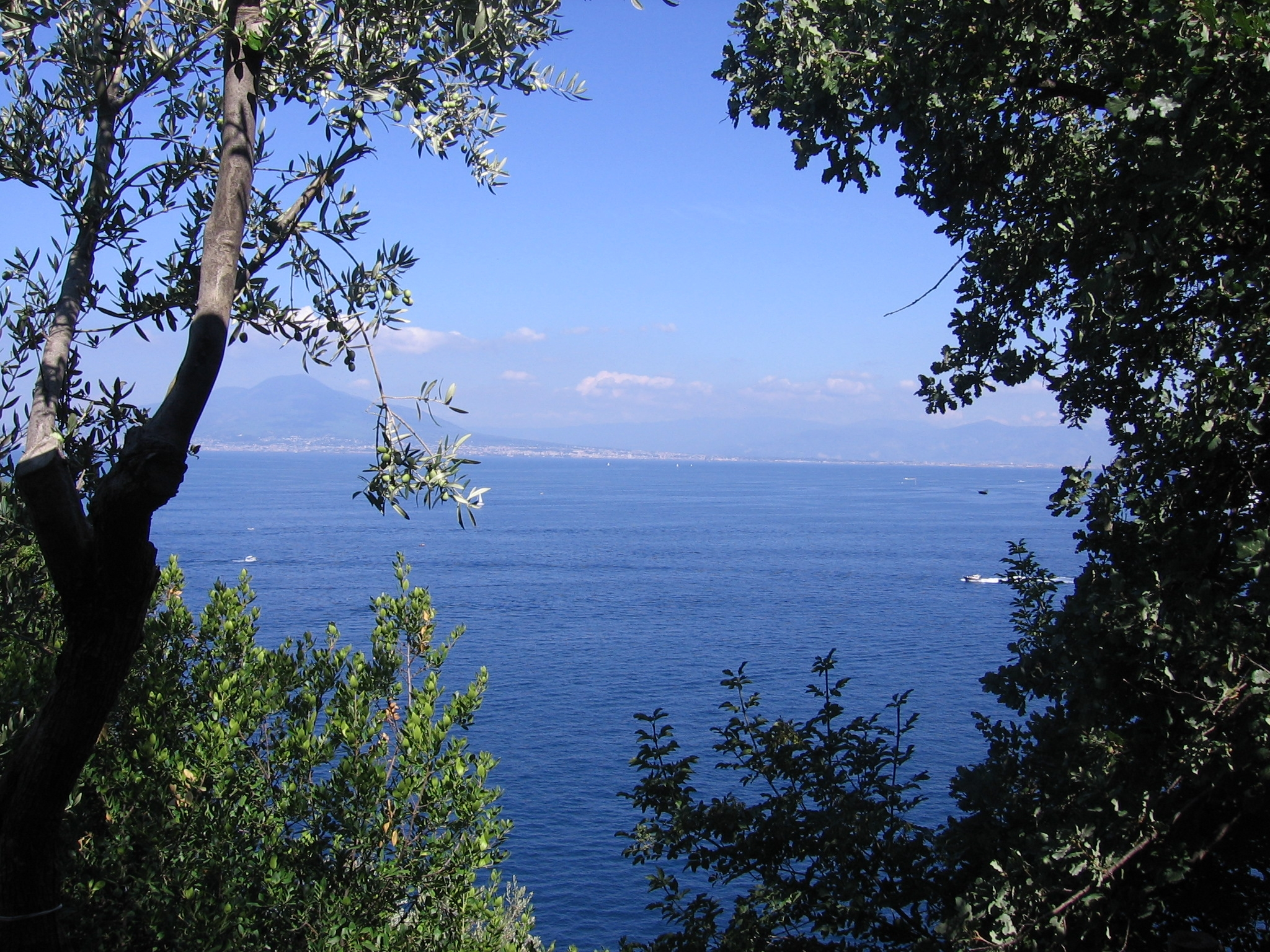 Description: View from a place close-by Sorrento, Italy on the Gulf of Naples. In the background there is Naples and the Mount Vesuvius